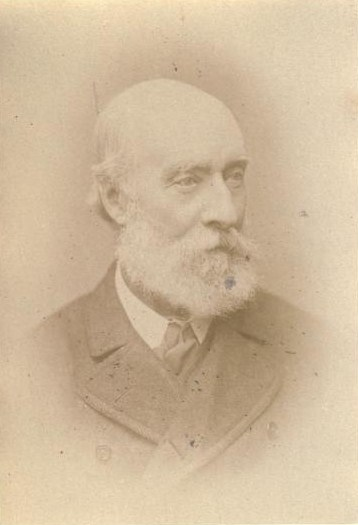 Photographic portrait of Charles West Cope